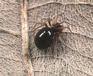 female Gongylidioides onoi from Okinawa.